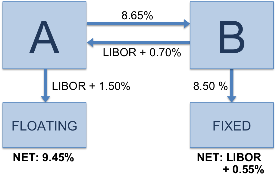 diagram of a vanilla interest rate swap